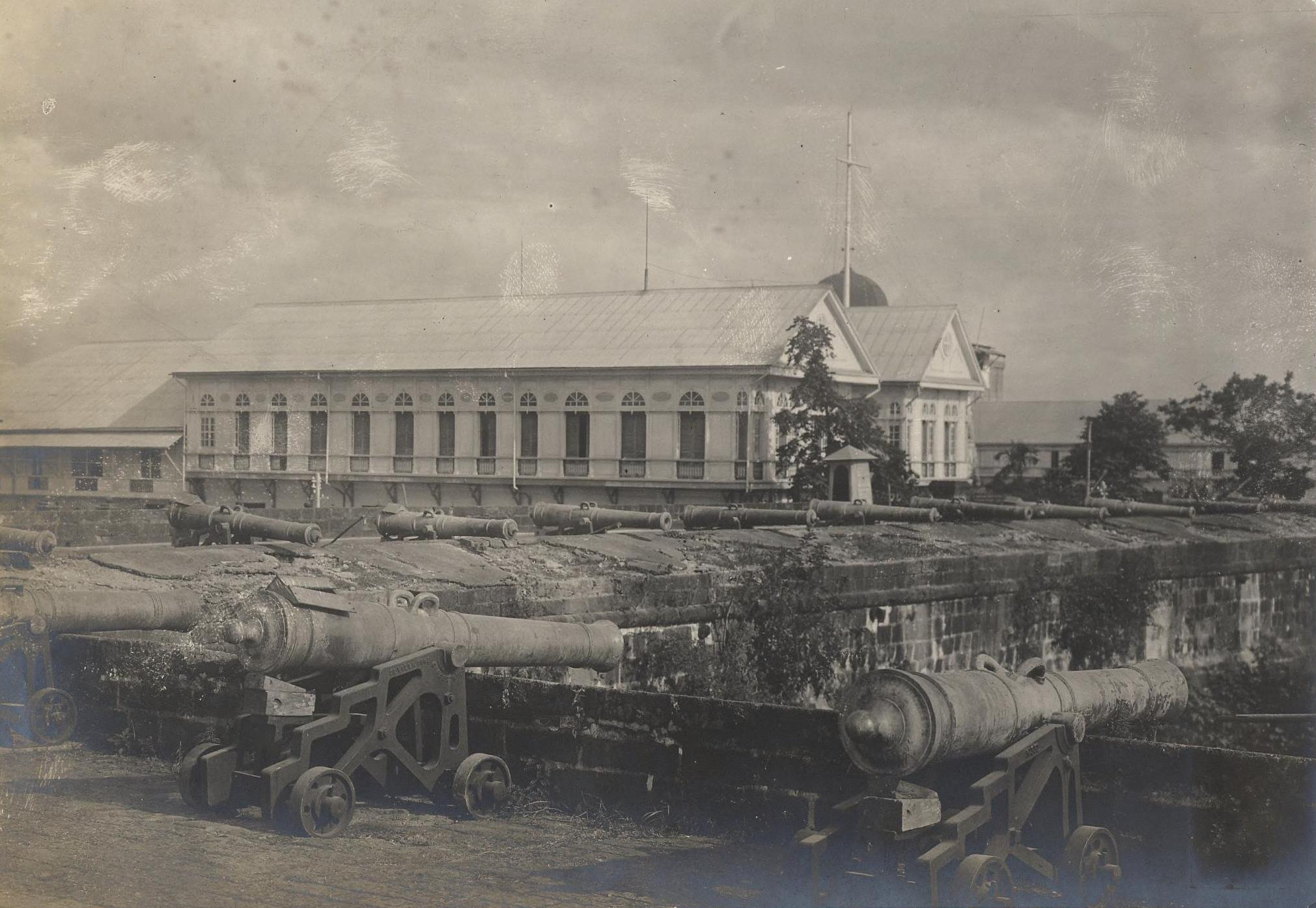 Spanish artillery located on the Intramuros in Manila.